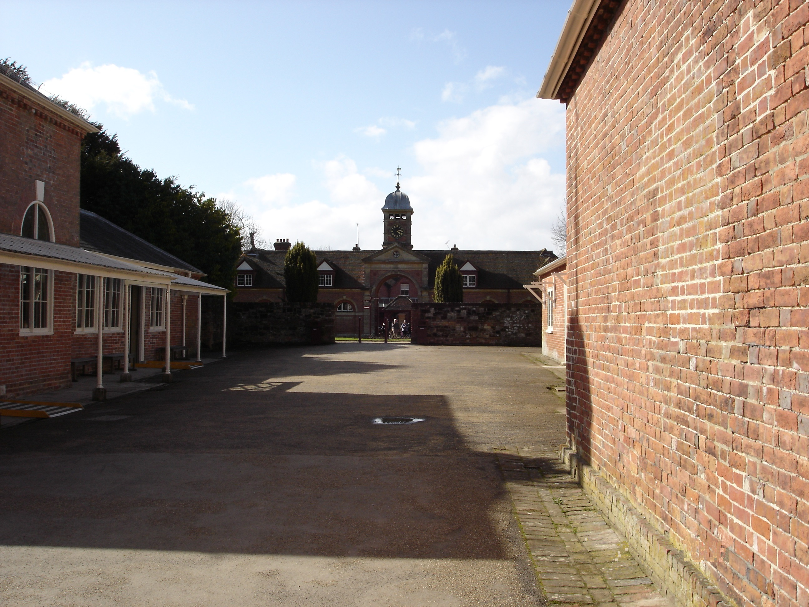 Kingston Lacy, Dorset